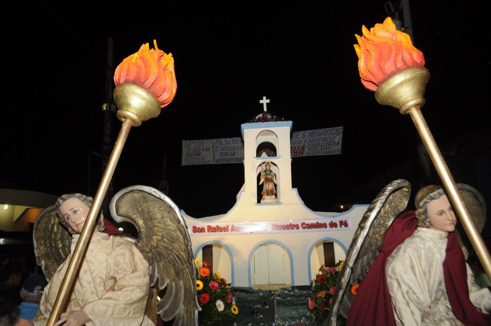 Fiestas 2019